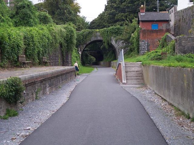 former Blackrock Station, Cork. The first six miles of the disused narrow gauge Cork, Blackrock & Passage Railway have been converted into a recreational trail. This is the former station at Blackrock two miles east of Albert Street station in Cork.